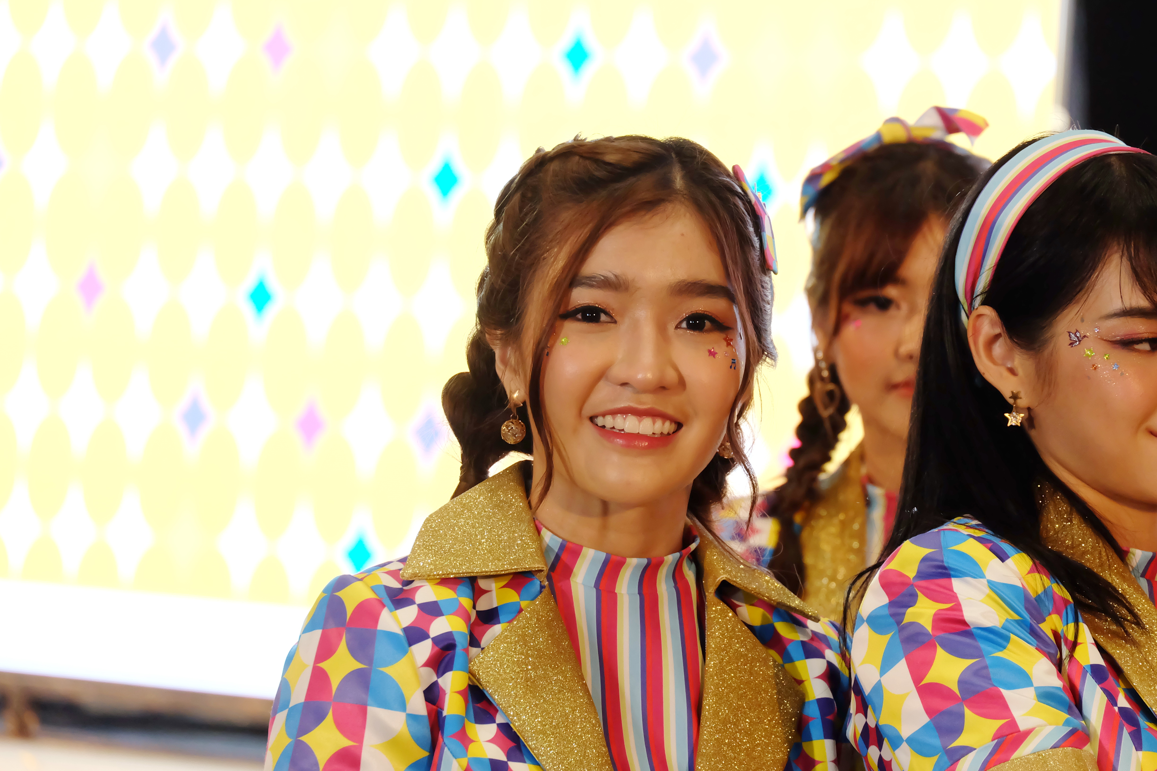 Jennis in Jabaja uniform, taken on the launching event on 5 July 2019 at IconSiam.